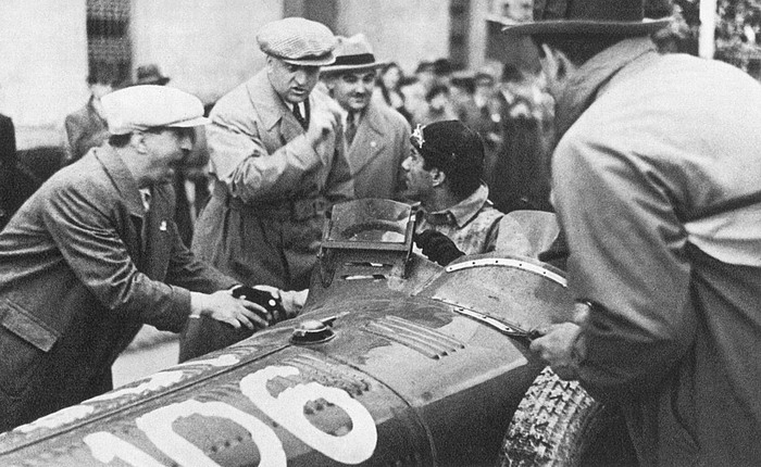 Team leader of Scuderia Ferrari is Enzo Ferrari (caps), instructing entry #106 Carlo Maria Pintacuda in a 1932 Alfa Romeo P3 s/n 5001. They WON this race, the Mille Miglia in Italia on 14 Abbrile 1935.